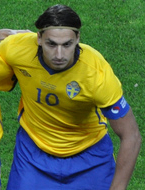 Zlatan Ibrahimović (Sweden) before the UEFA Euro 2012 qualifying match against San Marino on September 7, 2010